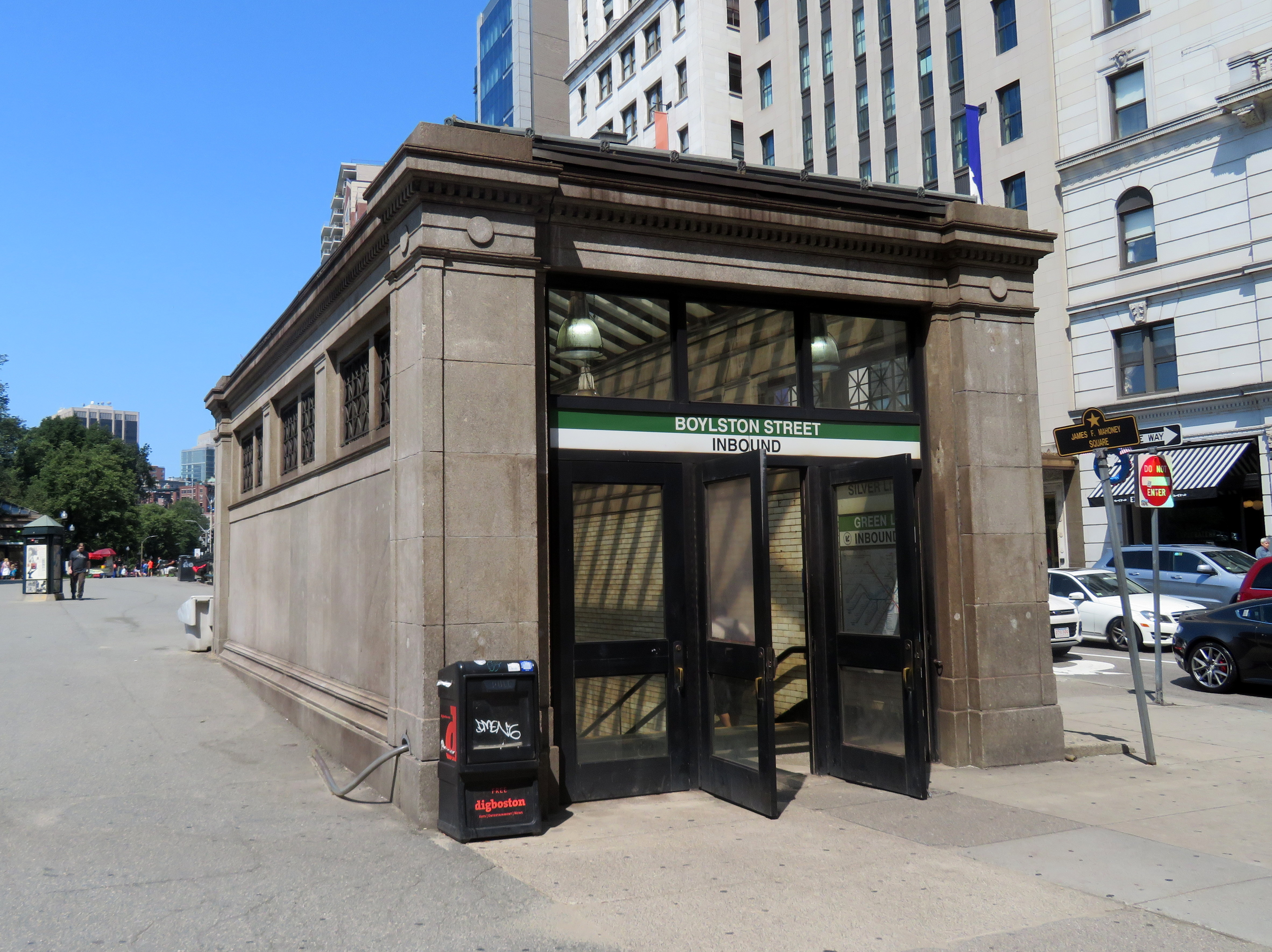 Inbound headhouse at Boylston station in July 2019